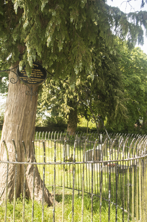 1853: Thomas Bunn's grave in Christchurch graveyard, Frome